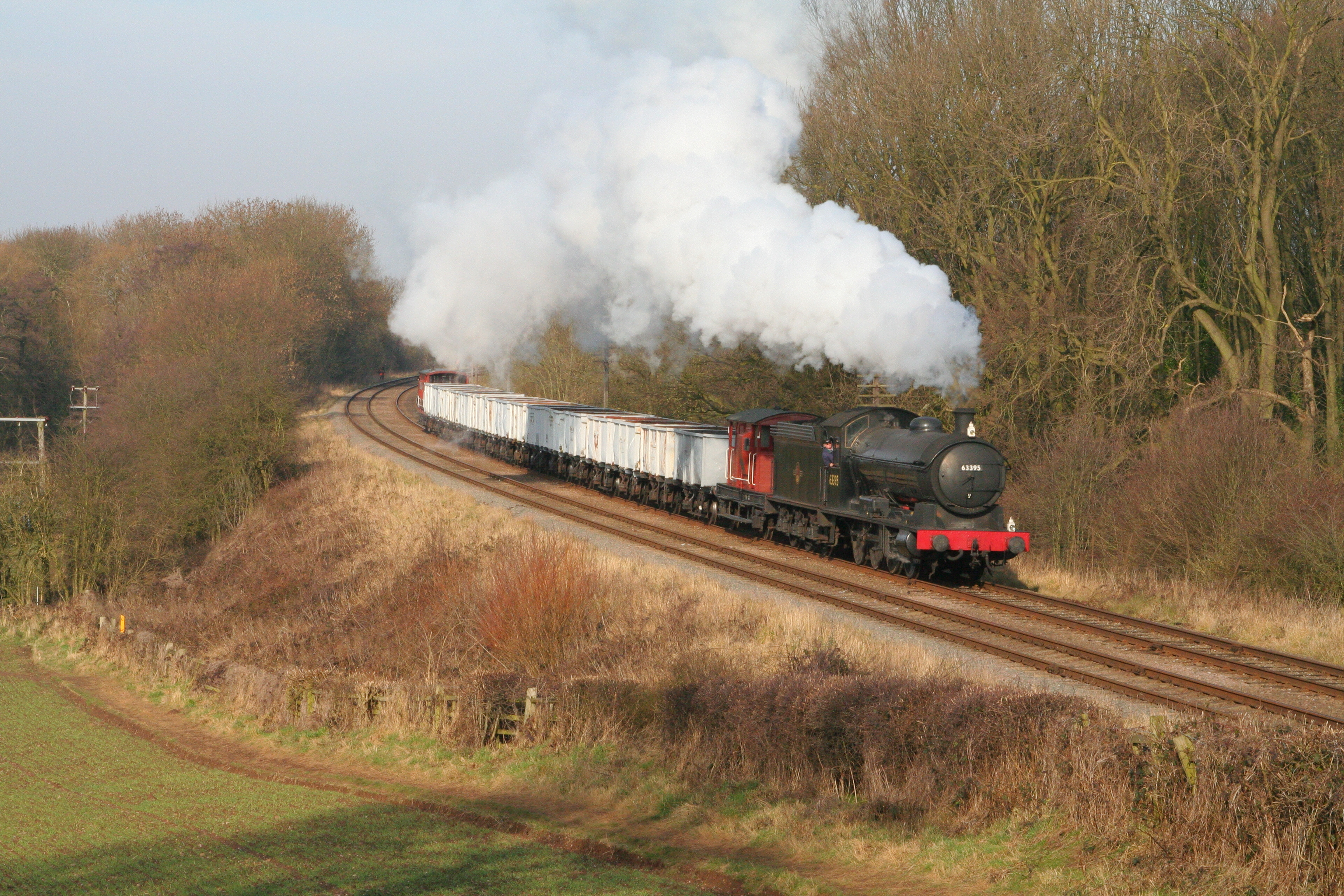 The visiting Q6 with the windcutter wagons.